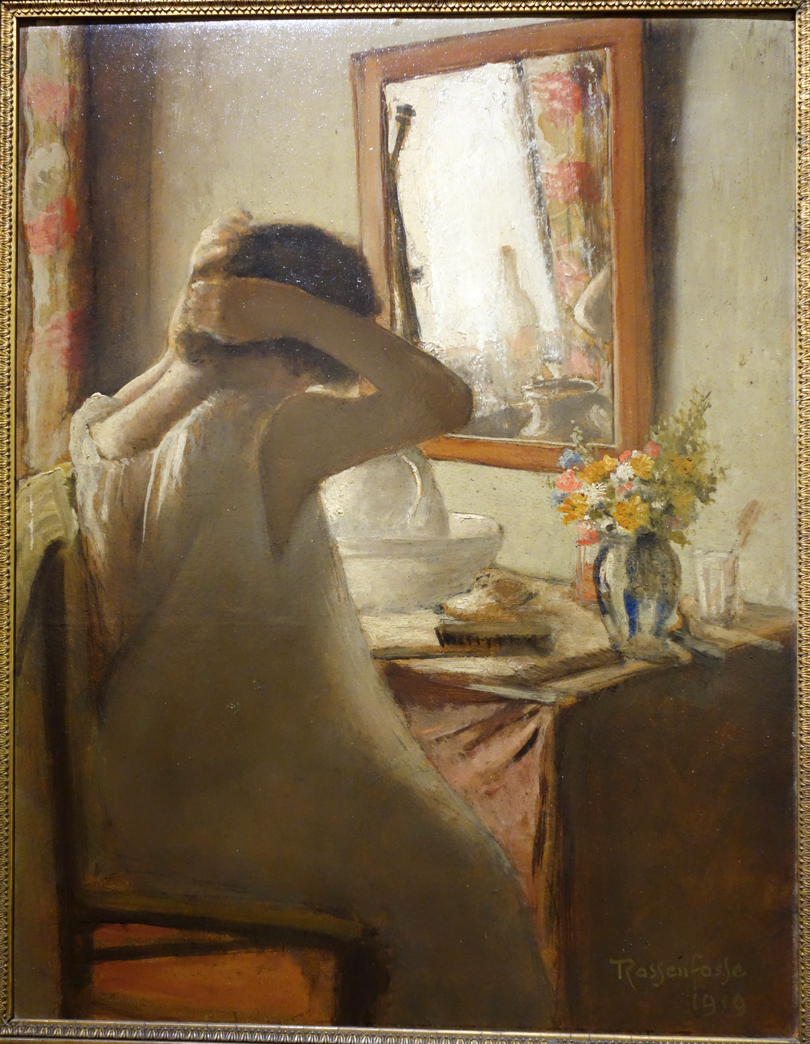 Exhibit in Museum M - Leuven, Belgium. This artwork is in the public domain because the artist died more than 70 years ago.